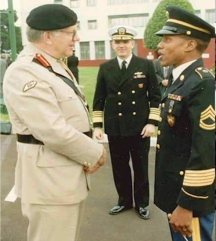 NATO ceremony: General Sir Anthony Walker, Commandant of the Royal College of Defense Studies; Admiral Jonathan T. Howe, Commander in Chief Allied Forces Southern Europe (NATO), and Chris Burnett, NATO Ceremonial Band Conductor pictured after Honors Ceremony in Naples, Italy.